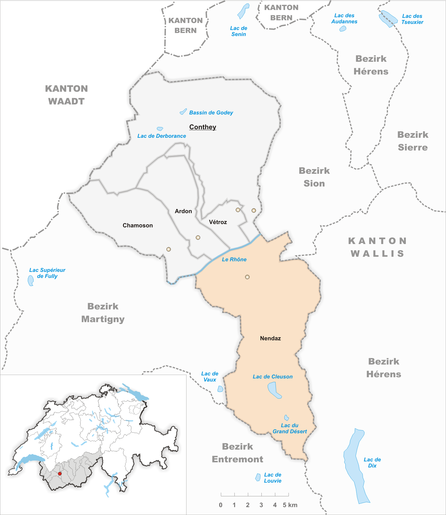 Municipality Nendaz